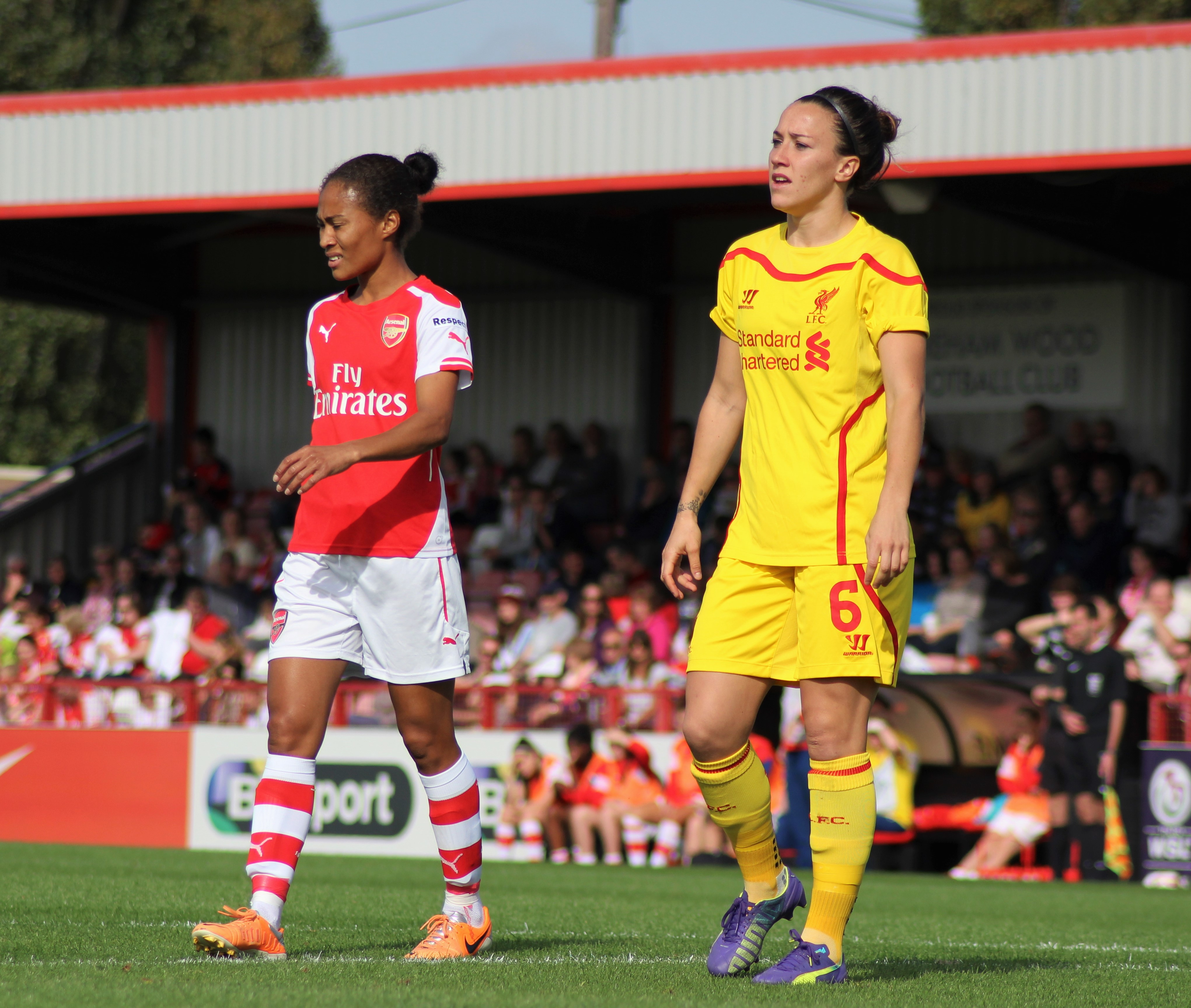 Rachel Yankey of Arsenal Ladies and Lucy Bronze of Liverpool Ladies during a WSL game.